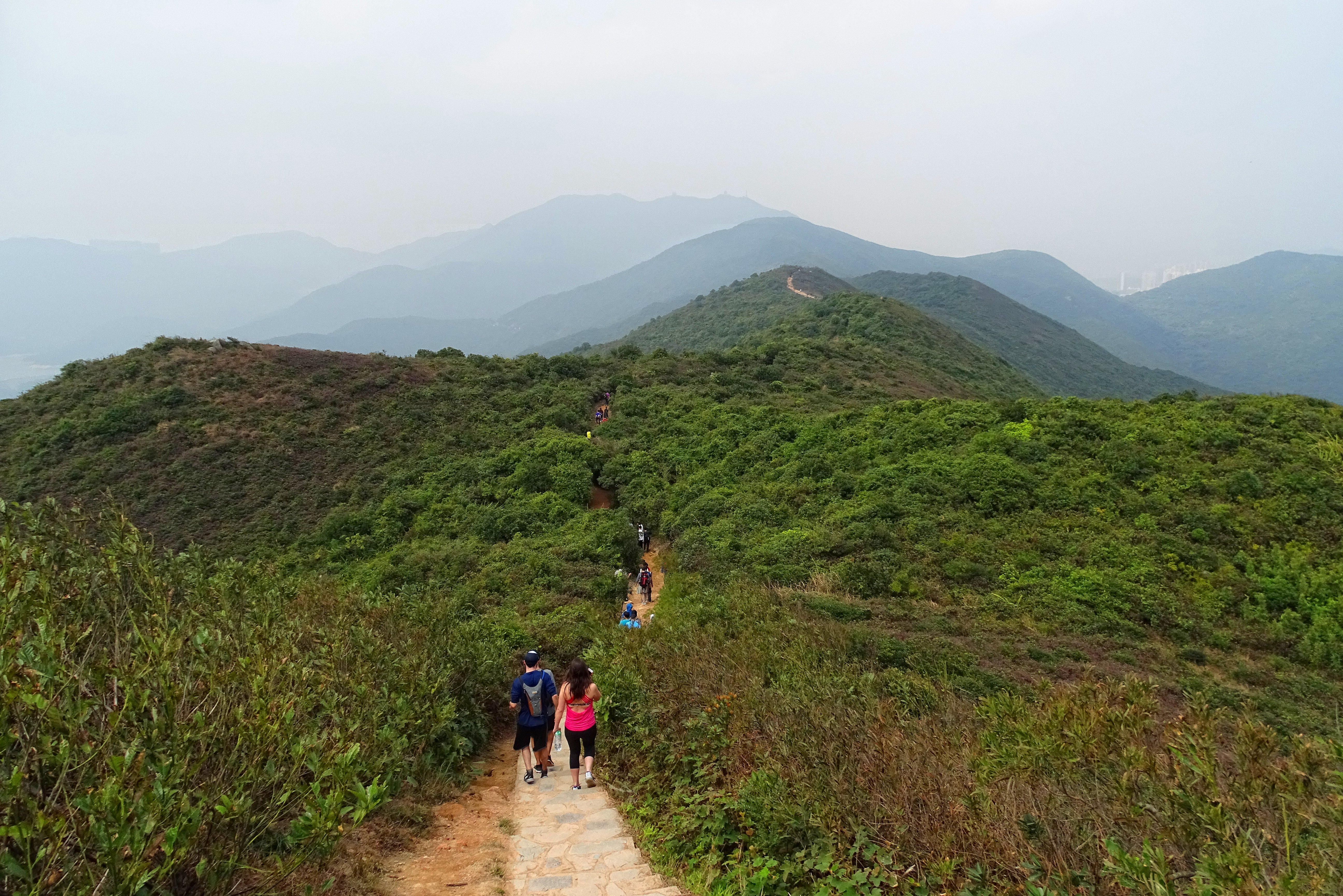 A view of the Dragon's Back trail from its highest point near Shek O, looking back towards the northern coast of Hong Kong Island.